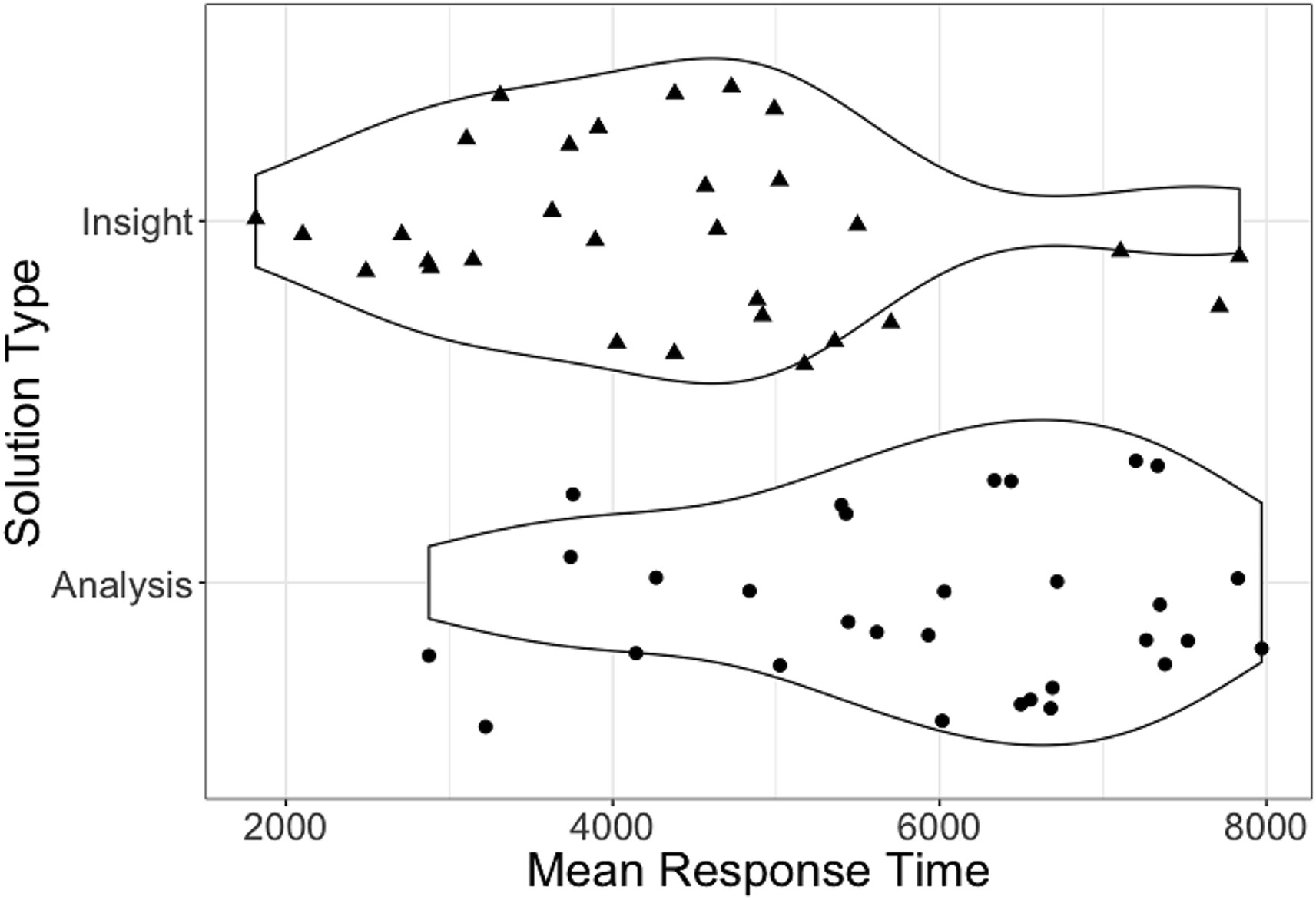 with insight solutions being faster than analytic solutions. adapted from: Oh, Y., Chesebrough, C., Erickson, B., Zhang, F., & Kounios, J. (2020). An insight-related neural reward signal. NeuroImage, 116757.